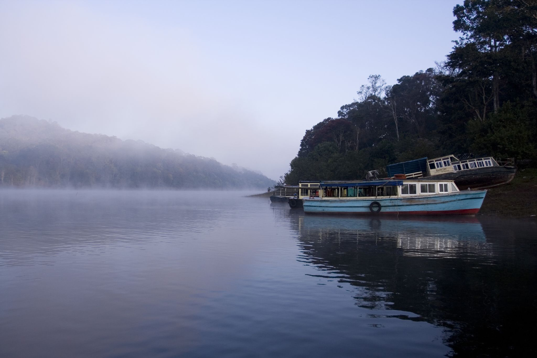 Awaiting the launch of our 7am boat tour across the placid surface of Periyar Lake, which the British built and used as a reservoir before turning the area into a wildlife sanctuary.